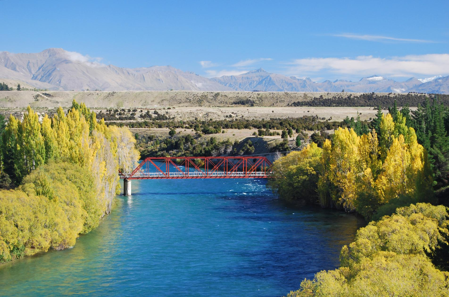 Photograph of the Red Bridge across the Clutha River at Luggate, in Central Otago, New Zealand. This single lane bridge was built in 1914 and features a 66 metre Baltimore span.